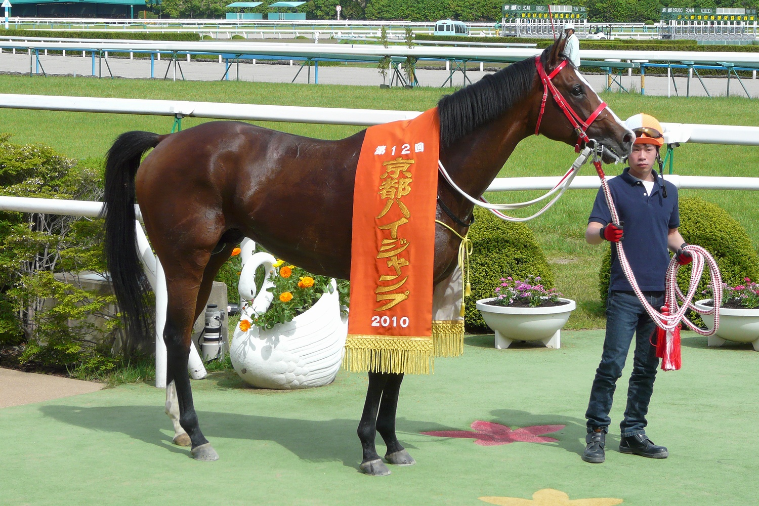 A-shin-DS20100515